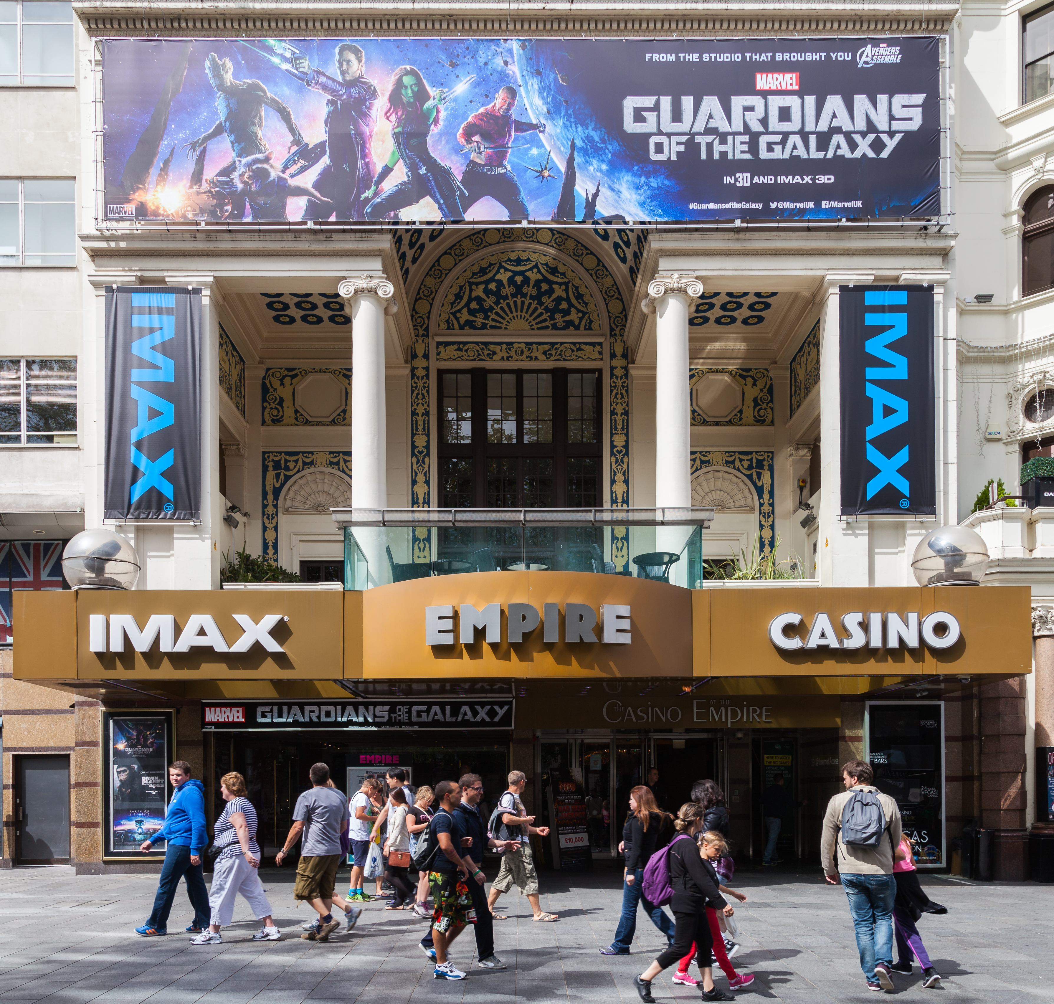 Empire, Leicester Square, London, England